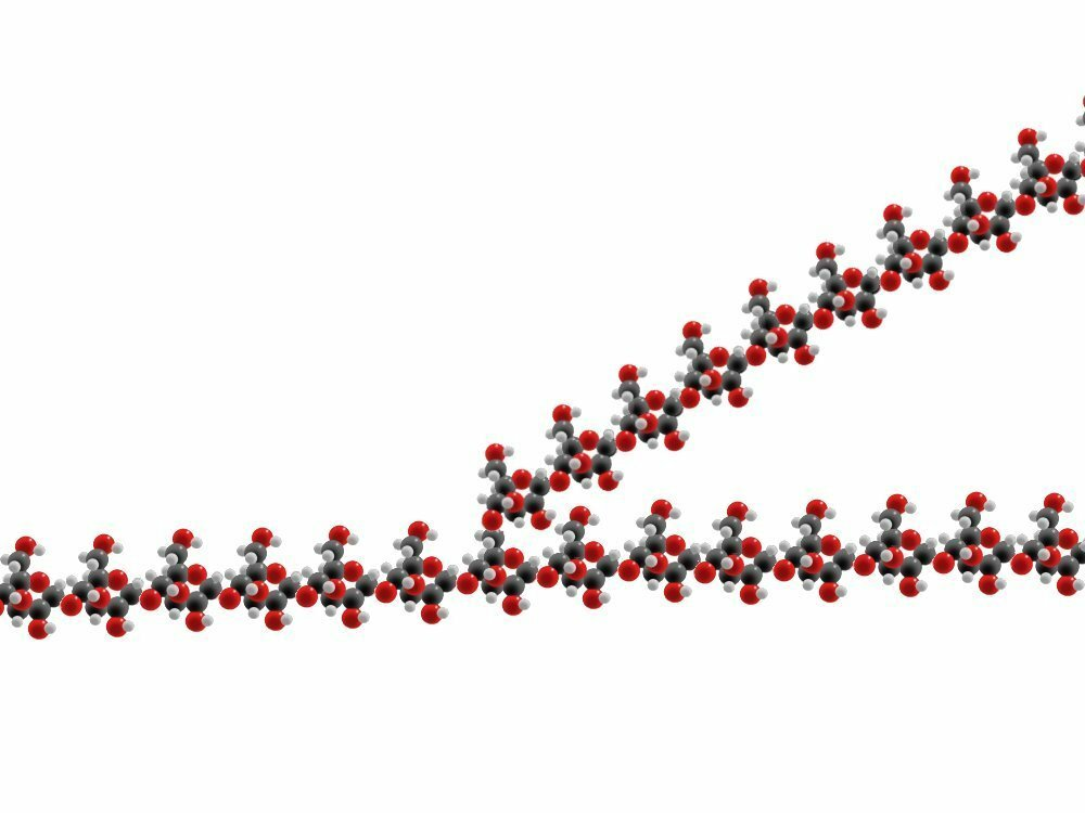 This image shows the atomic-level structure of a single branched chain in a glycogen molecule. Red balls are oxygen atoms, black balls are carbon atoms, and white balls are hydrogen atoms. This image is my own work.